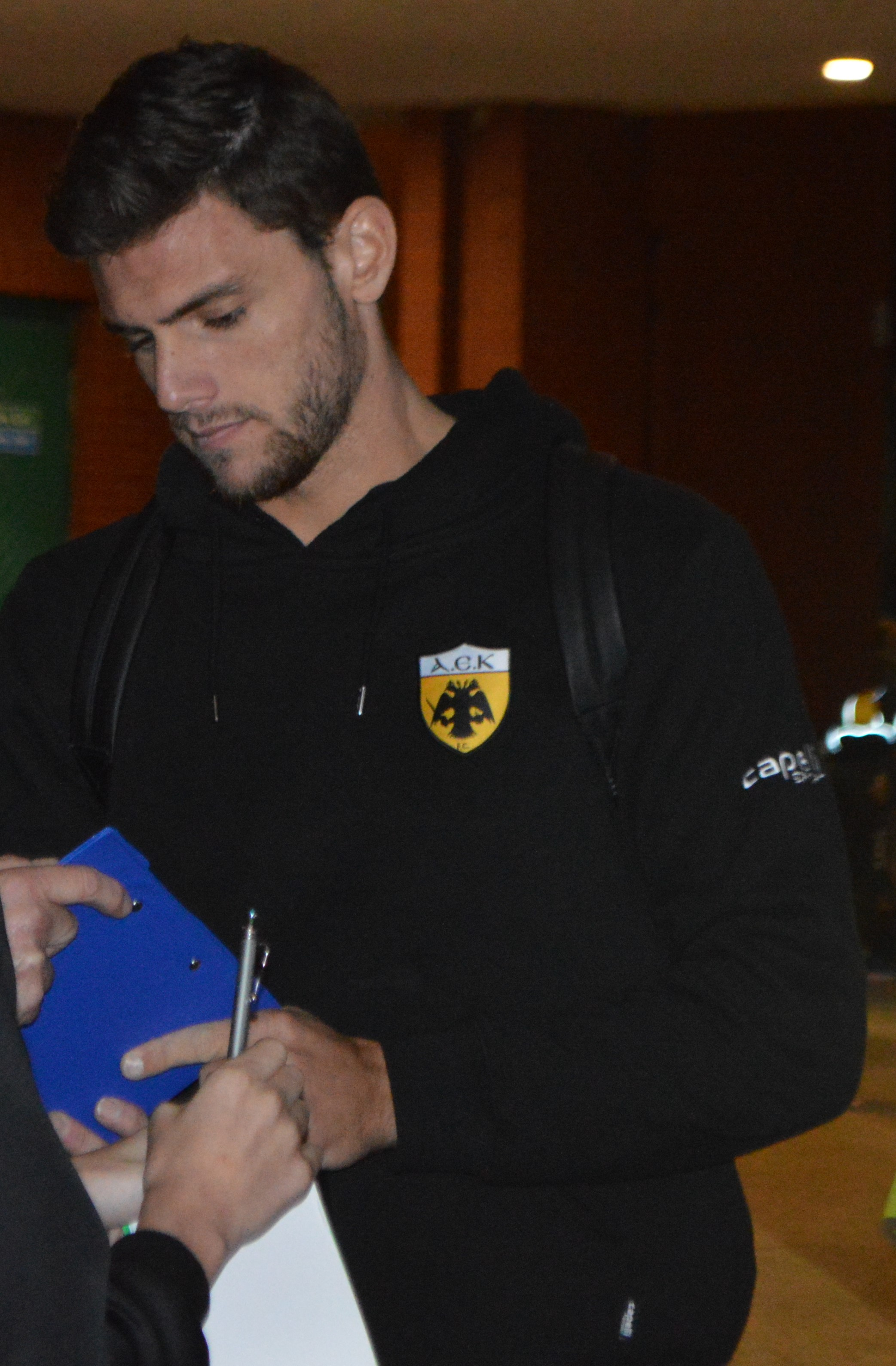 lucas boye celtic aek